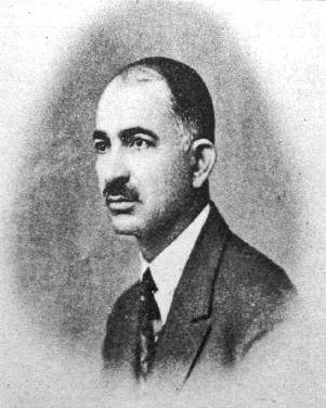 Sekula Drljević (Serbian Cyrillic: Секула Дрљевић; 7 September 1884 – 10 November 1945), Montenegrin lawyer and politician